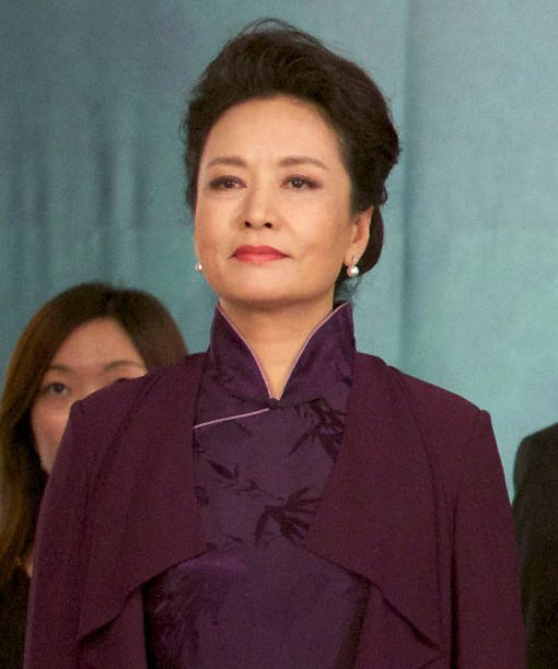 Peng Liyuan, spouse of Xi Jinping, General Secretary of the Chinese Communist Party (China's paramount leader). National Palace, Mexico City.